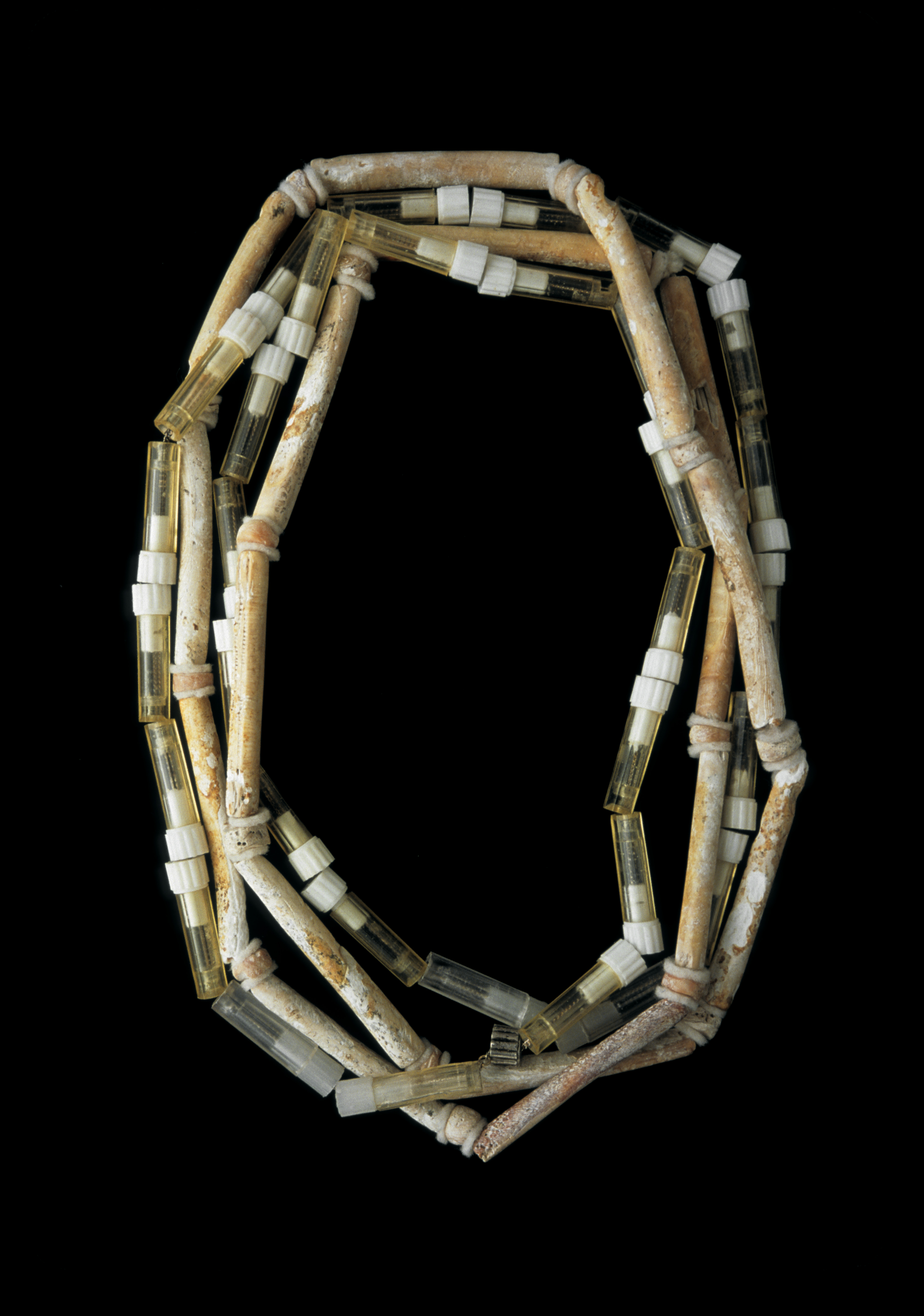 Crack Vial Neck Strand by Jan Yager with Prehistoric Bone Neck Strand, "A.D. 1990 Crack Vial Neck Strand and A.D.1000 Southwest American Indian Bone Tube Neck Strand.” Crack Vial Strand, Length: 18in / 46cm, diameter of beads .6in/1cm. Materials: (32) found clear crack cocaine vials, (32) white and clear crack cocaine caps, (1) Crack cocaine cap cast into sterling silver, strung on a segmented sterling silver chain. Techniques: gathered, sanitized, sorted, drilled, strung. Artist Statement: "I was stuck by the similarity in size and shape of the prehistoric bone tube neck strand to contemporary plastic crack cocaine vials found on the sidewalk outside my studio in North Philadelphia. Human-made forms, nearly a thousand years apart, inspired me to create a contemporary version. Both are composed of "readily available materials" common to their own time and place.